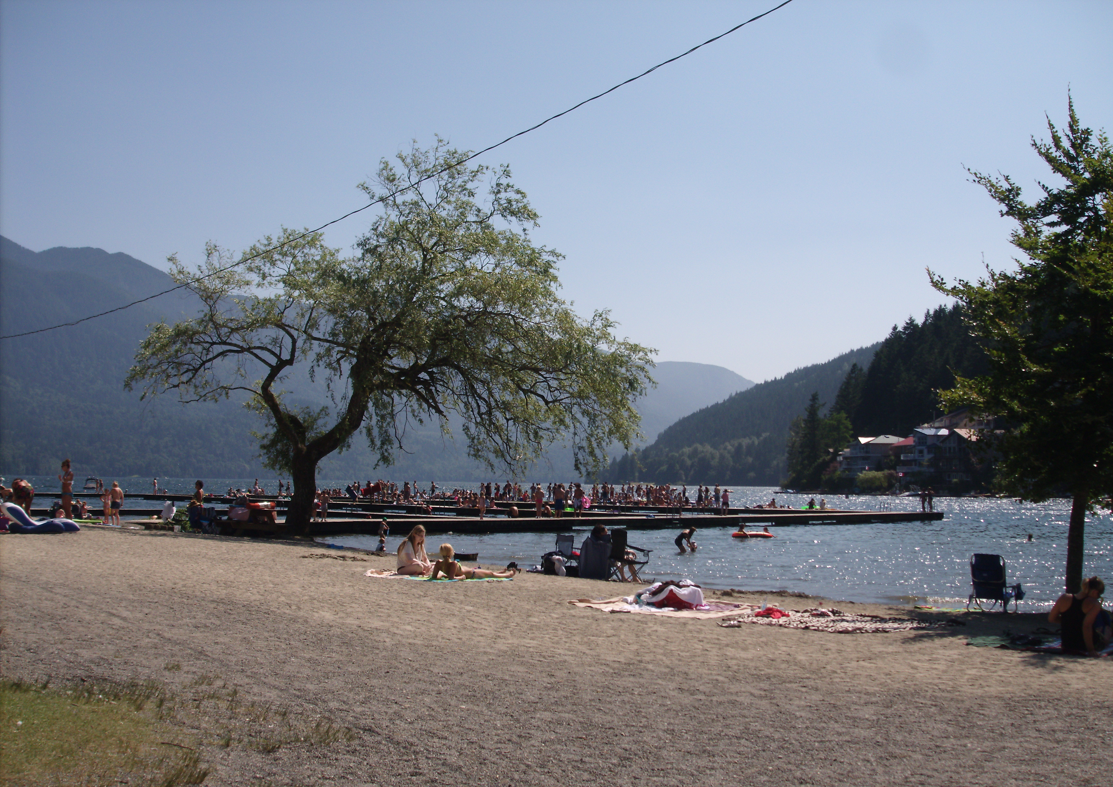 Dock at the public beach on Cultus Lake, British Columbia